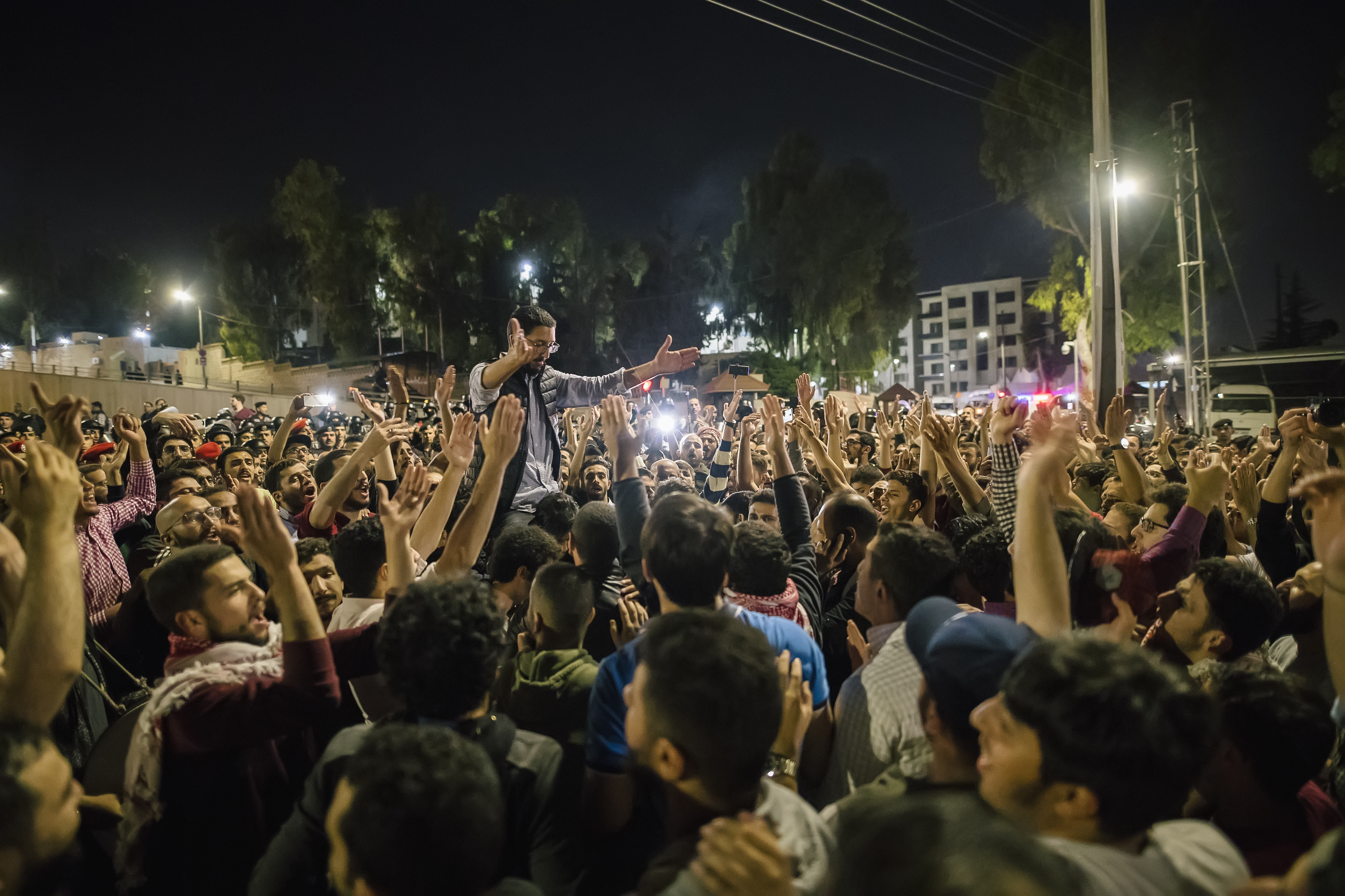 Protests in Amman, capital of Jordan, in response to the proposed revision of the income tax law, and resulting price hikes. These pictures show protests happening in Amman's fourth circle, which is among the principle gathering points for protestors as it's located near the Prime Ministry of Jordan.